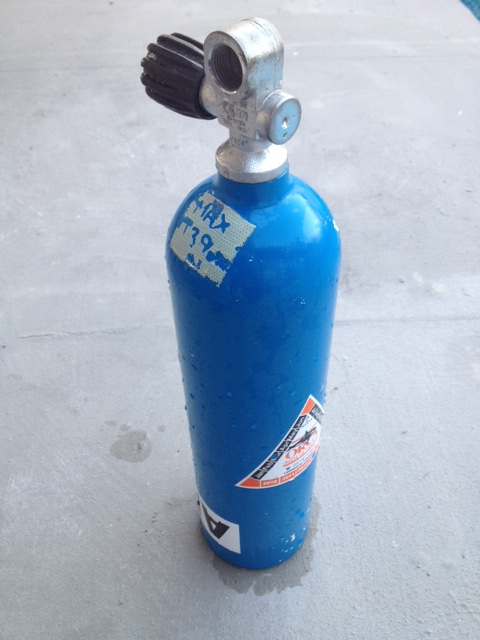 Aluminium cylinder and valve intended for argon at a maximum pressure of 139 bar to be used for the inflation of a drysuit whilst scuba diving